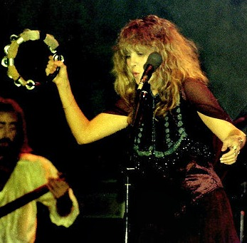 Fleetwood Mac - 1977 - Comback To Europe Tour - in Frankfurt/Höchst